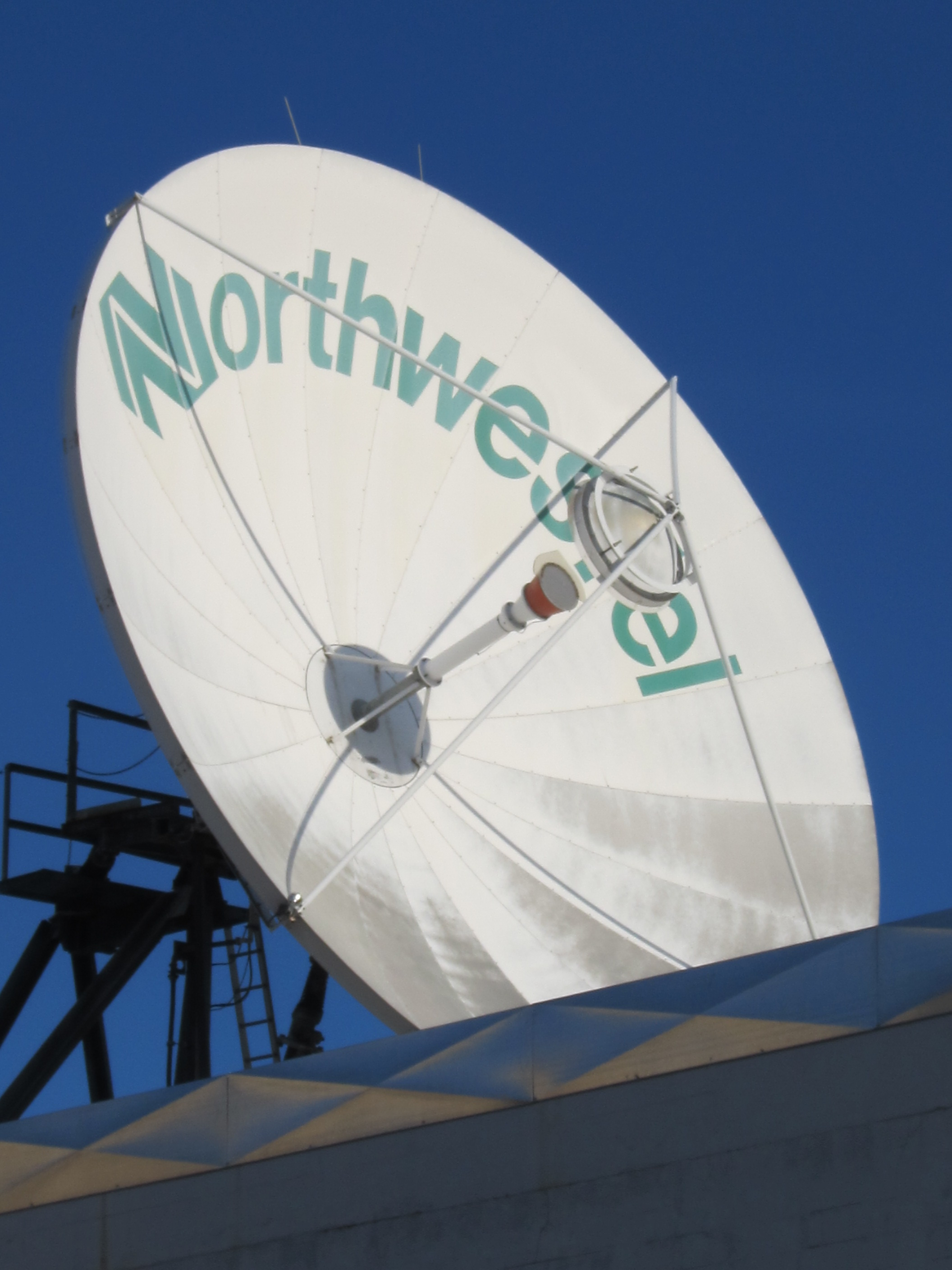 Sights around Whitehorse, Yukon.